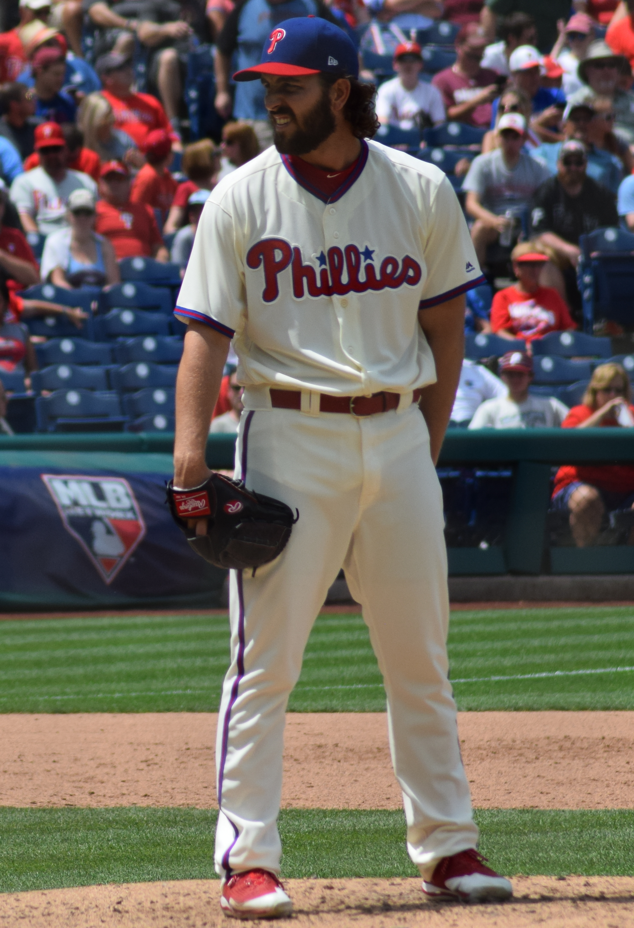 Austin Davis on the mound for the Philadelphia Phillies at Citizens Bank Park in Philadelphia in 2018